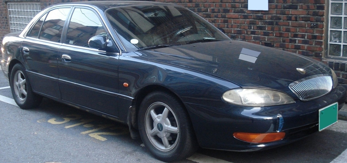 Hyundai Marcia